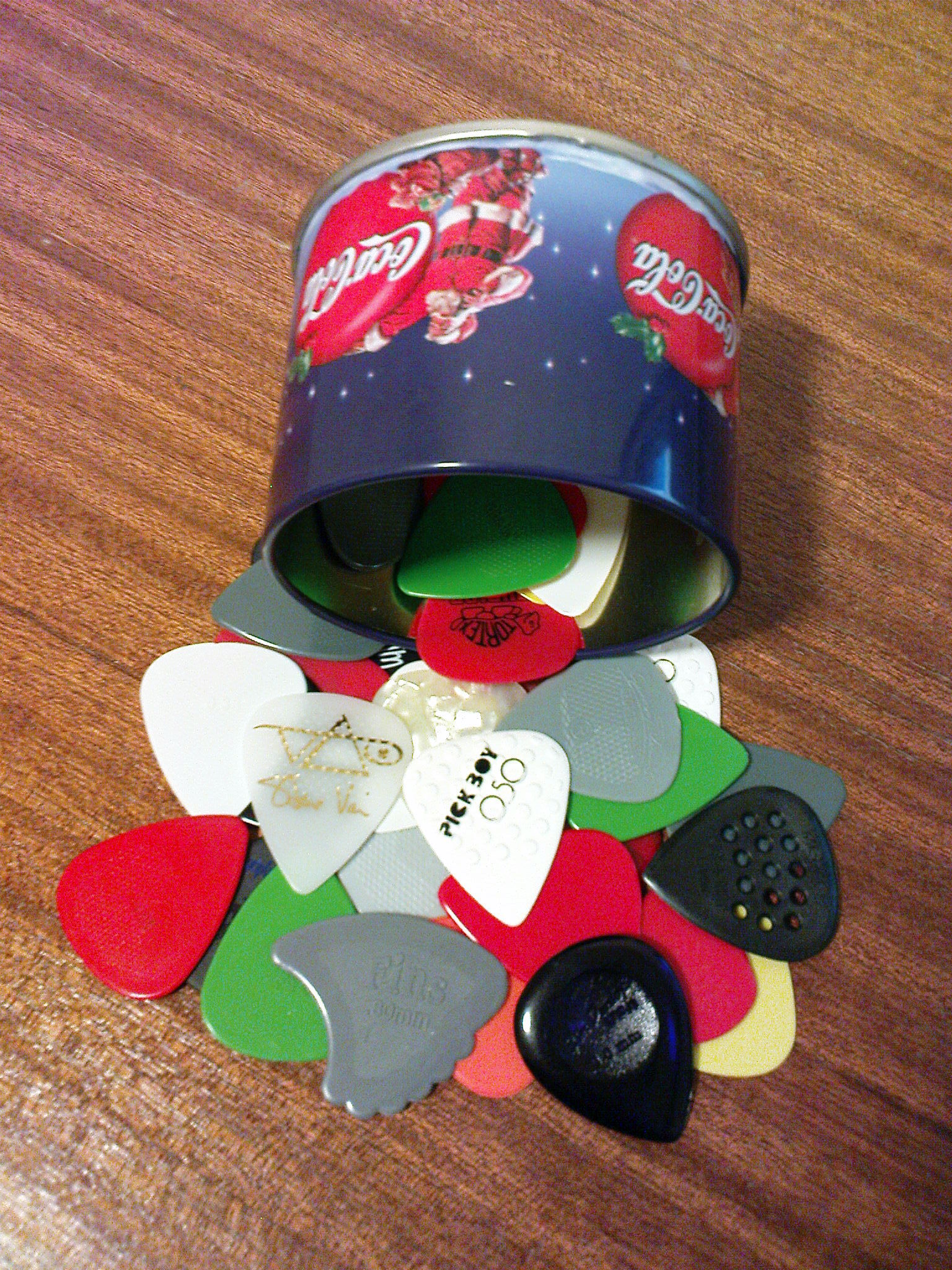 picks , Guitar picks